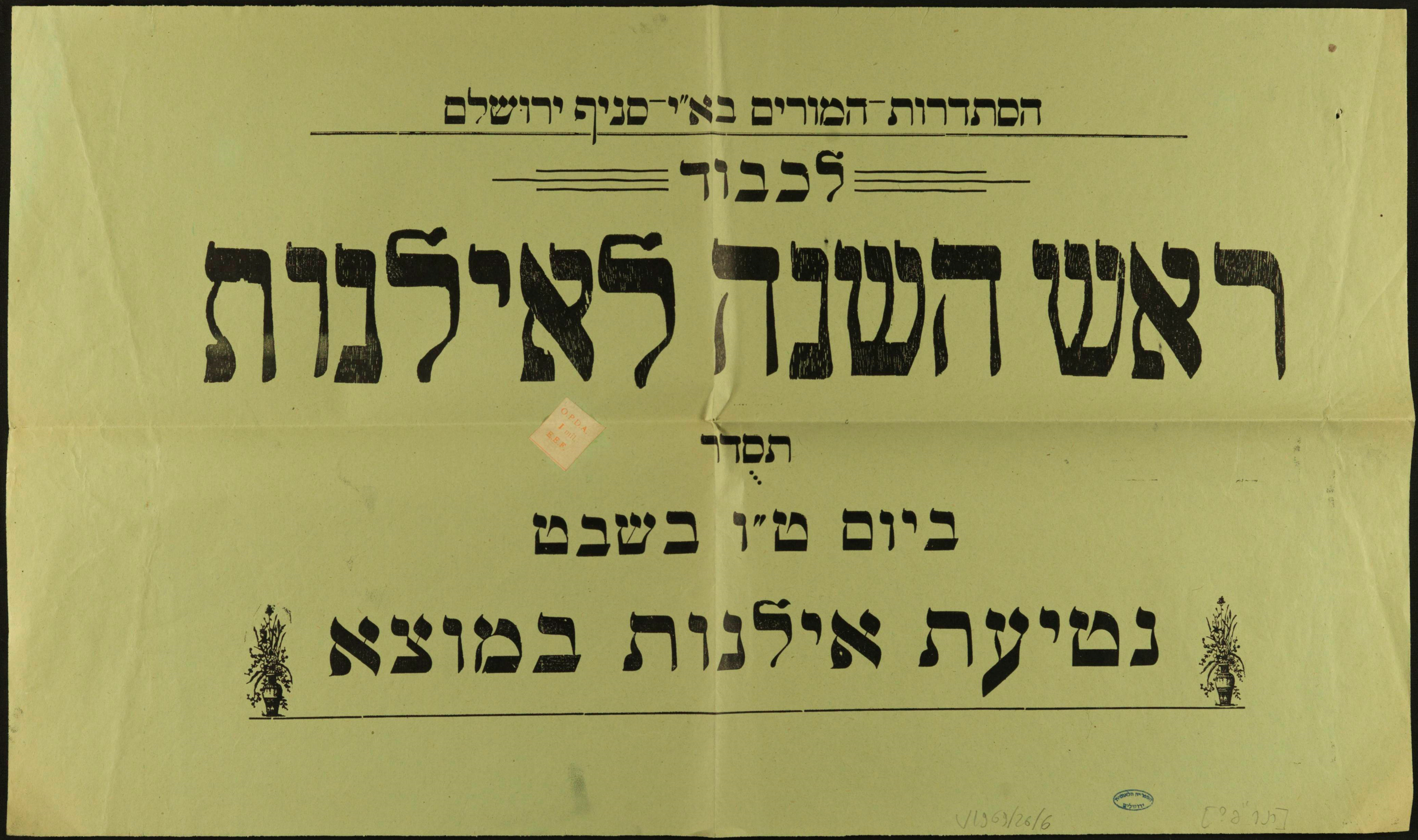 Teacher's Association Poster - Tu Bishvat, 1927